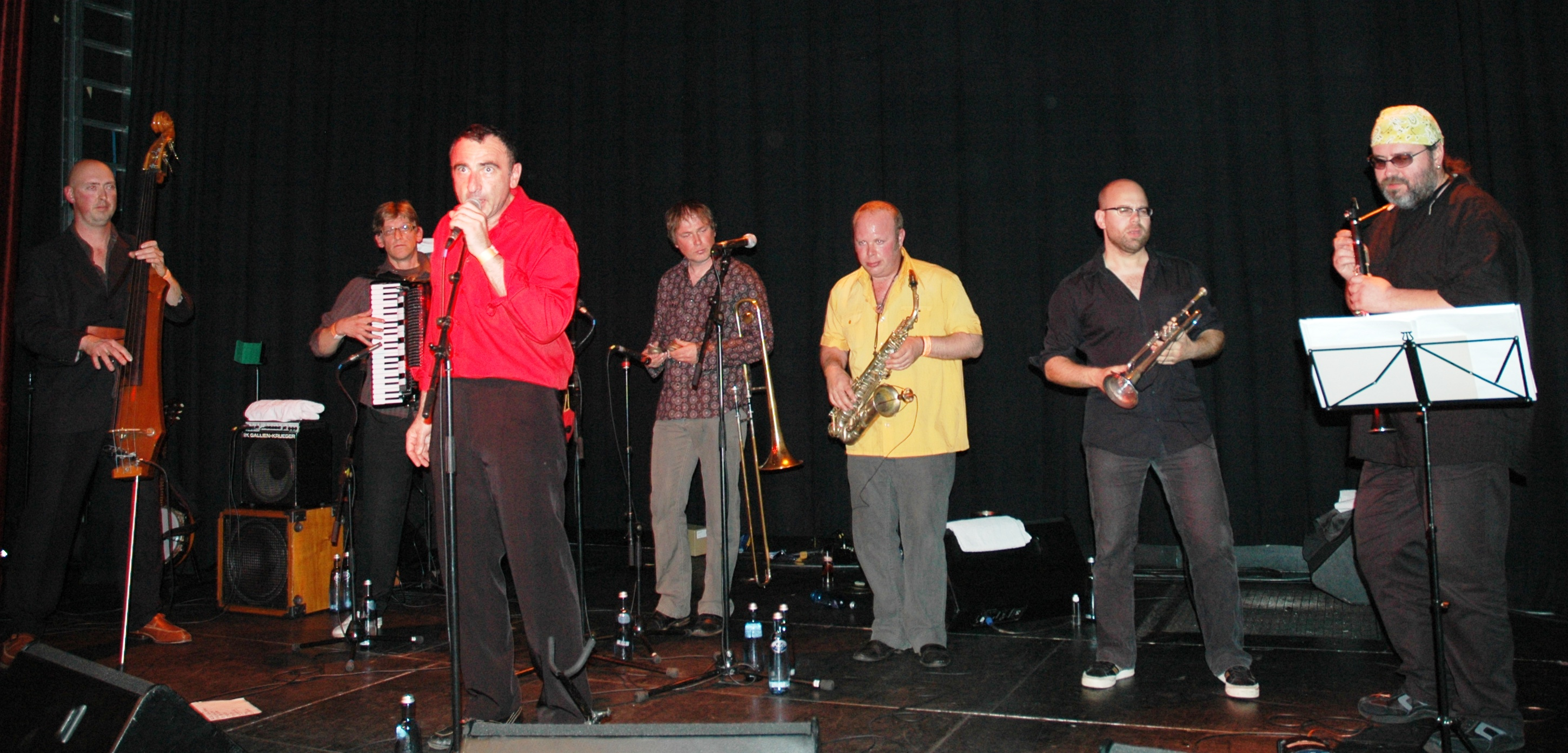 Amsterdam Klezmer Band at the Gloria Theater in Köln, Germany